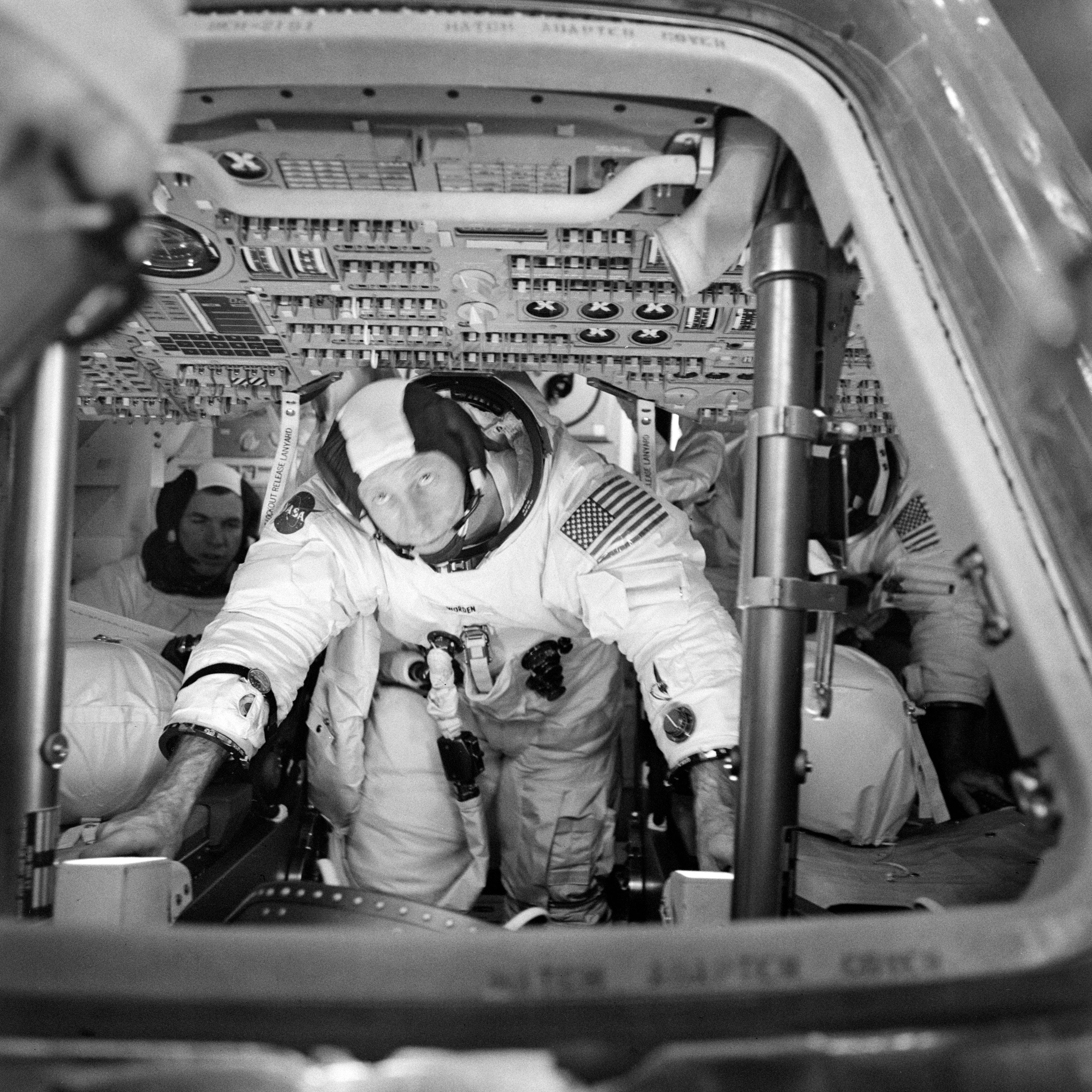 The three Apollo 15 prime crew members can be seen inside the Apollo 15 Command Module (CM) during simulation training at the Kennedy Space Center (KSC). Astronaut David R. Scott, commander, is in the background to the left. Astronaut Alfred M. Worden, center foreground, is the command module pilot. Out of view, to the right background, is astronaut James B. Irwin, lunar module pilot.